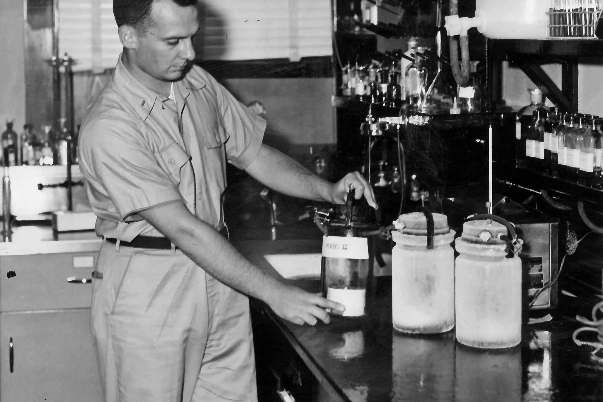 Lt. John A. Kooistra, Jr. of the U.S. Air Force's School of Aviation Medicine's Department of Microbiology, experimenting on a "Mars jar" in 1957